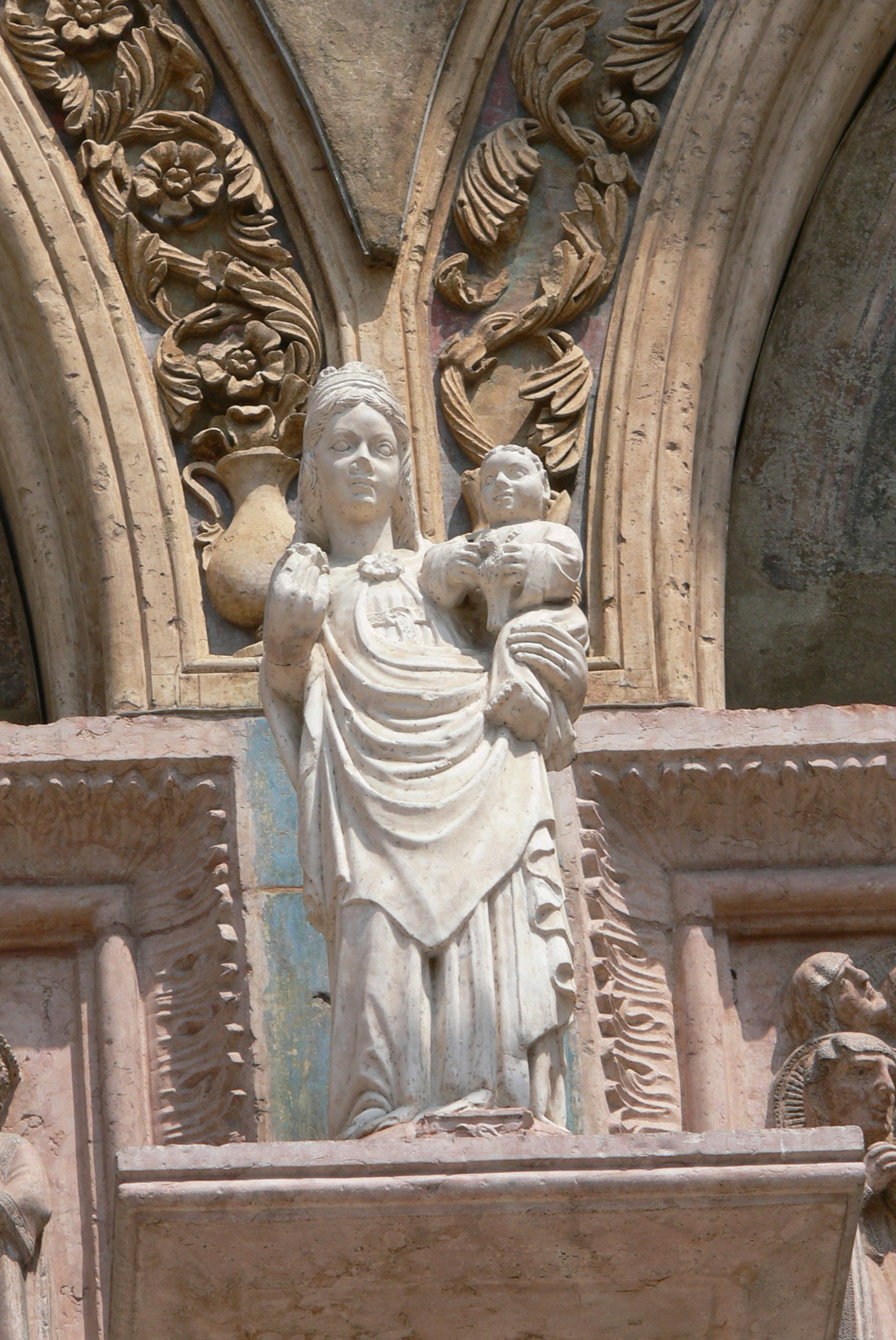 Verona ( Italy ). Saint Anastasia church: Statue of Madonna and child at the main portal.